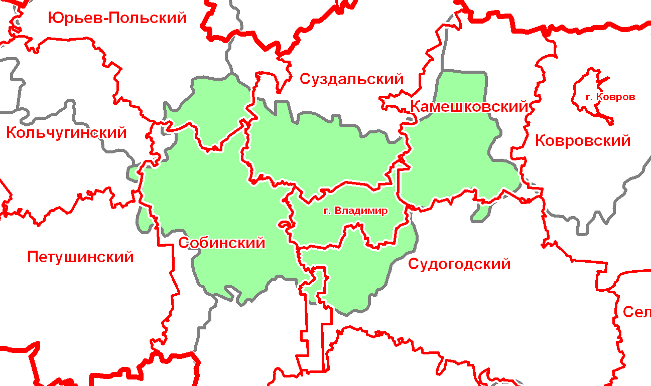 Maps of Vladimir Governorate